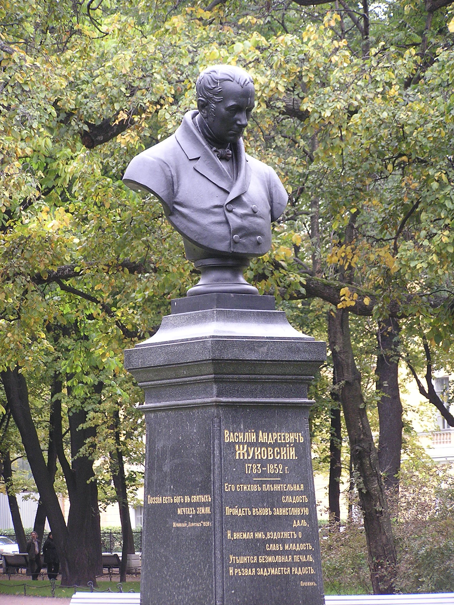 Saint Petersburg (Russia), Russian Admiralty, Bust of Vasily Zhukovsky.